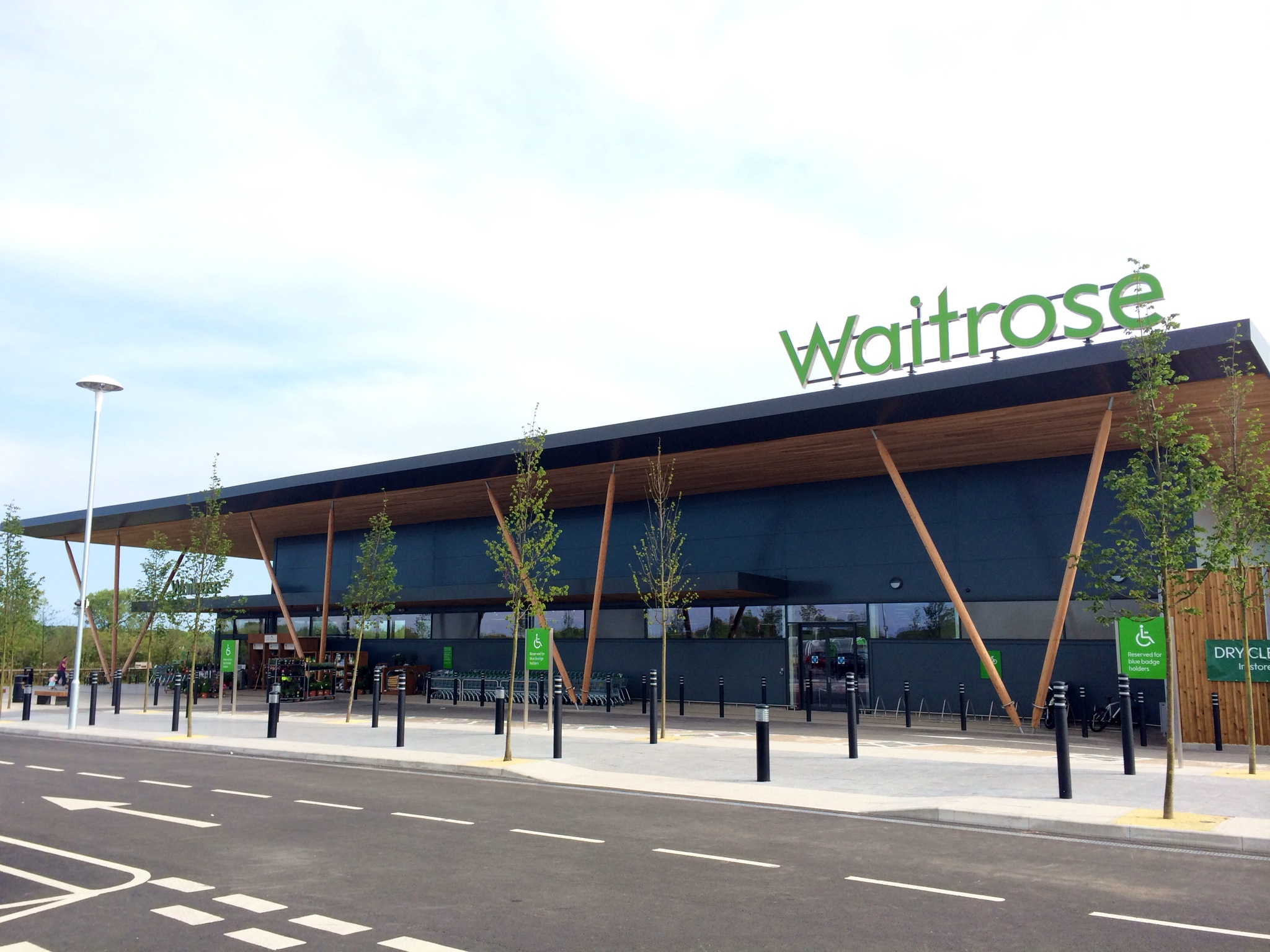 Photograph of Waitrose in Swindon